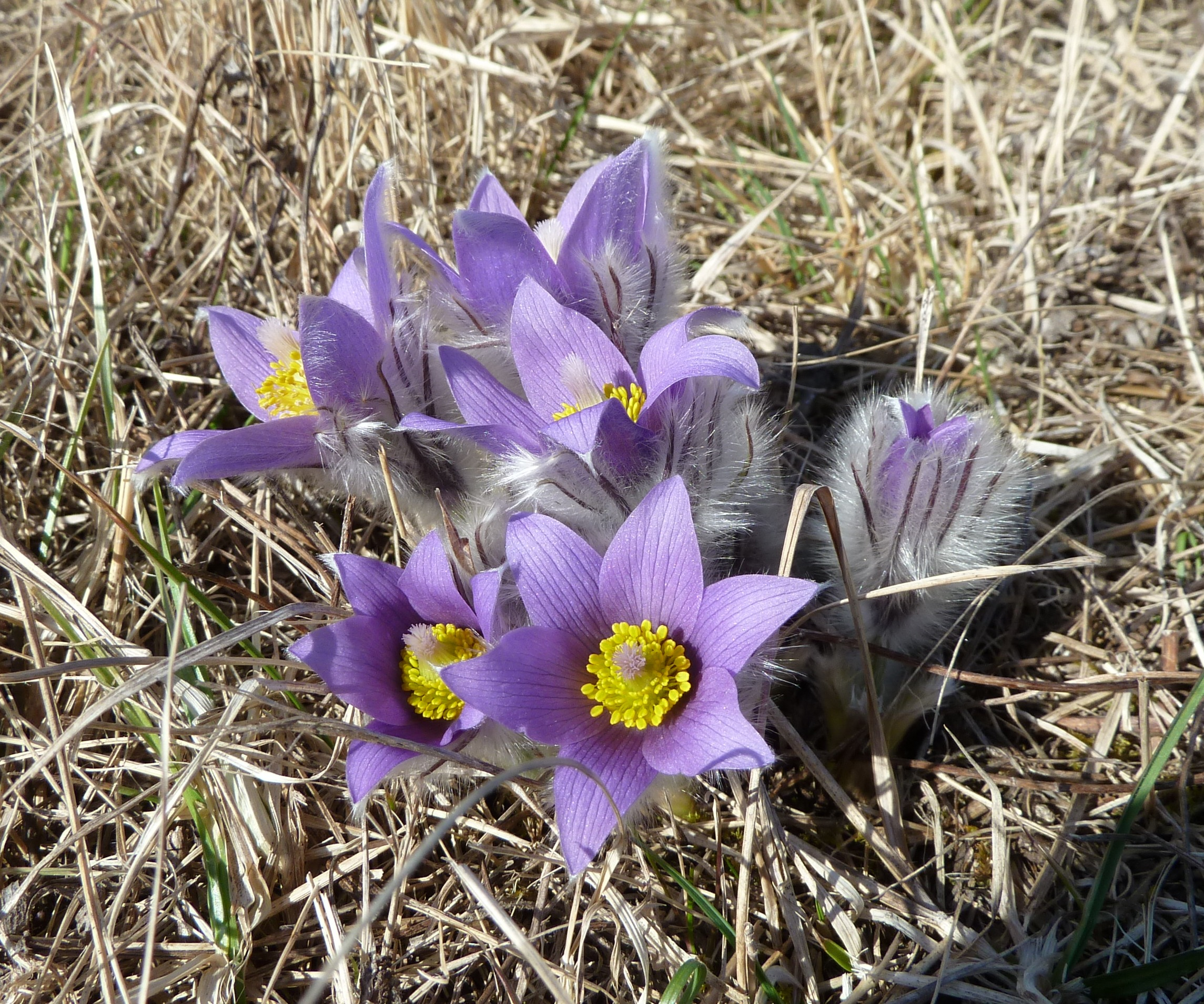 Pulsatila grandis in nature monument Vápenice (Prostějov district, central Moravia, Czech Republic)